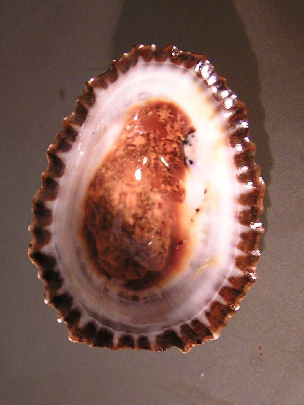 Scutellastra granularis(Linnaeus, 1758), a limpet from the family Patellidae; South Africa